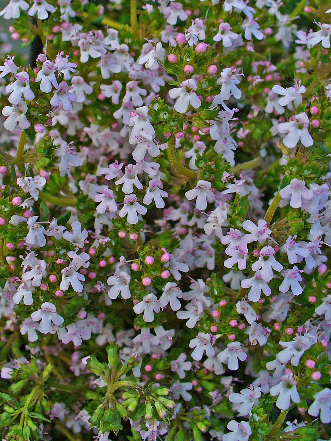 Thymus vulgaris, Lamiaceae, Common Thyme, flowers.